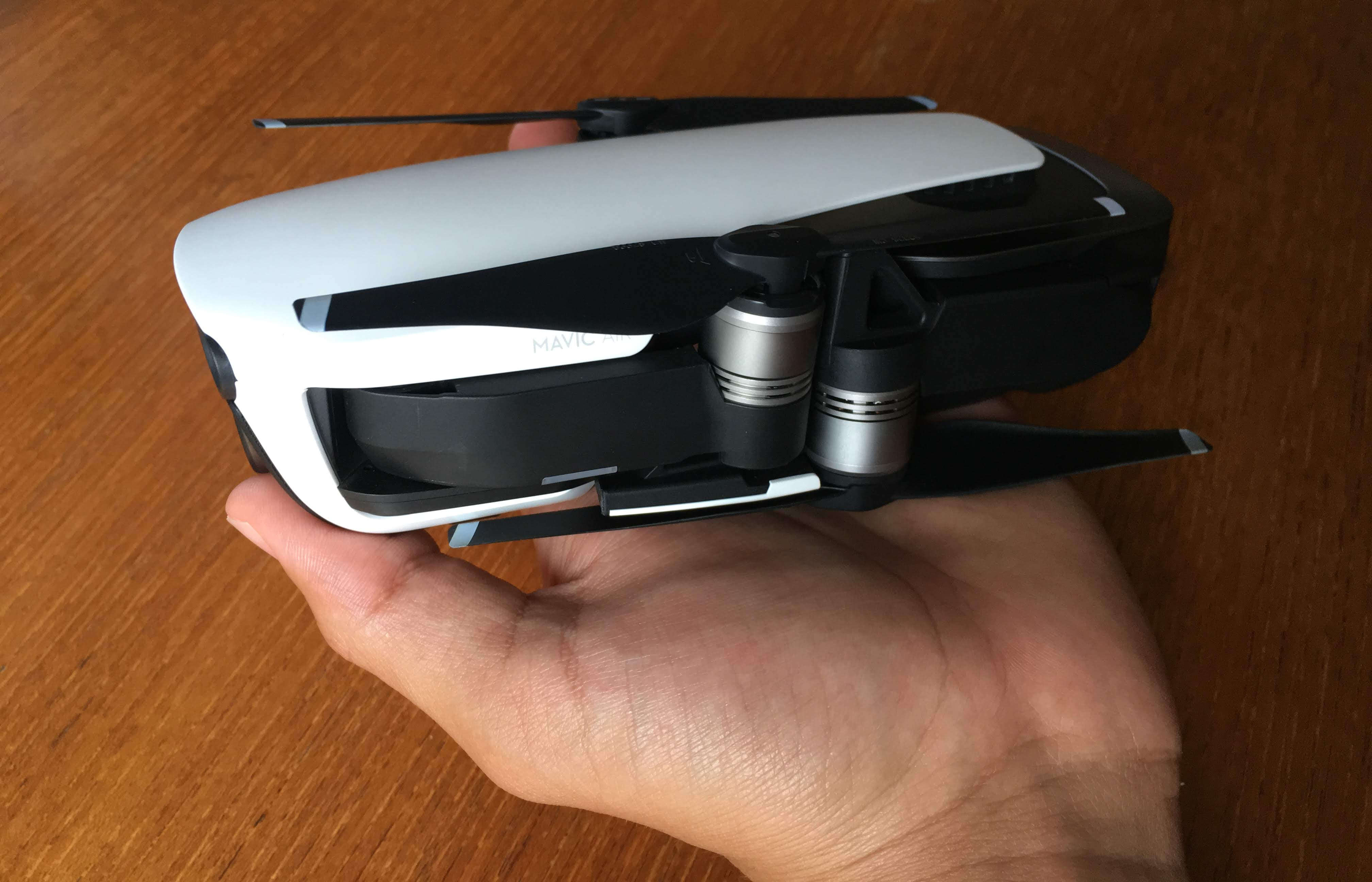 A person holding the DJI Mavic Air folded.